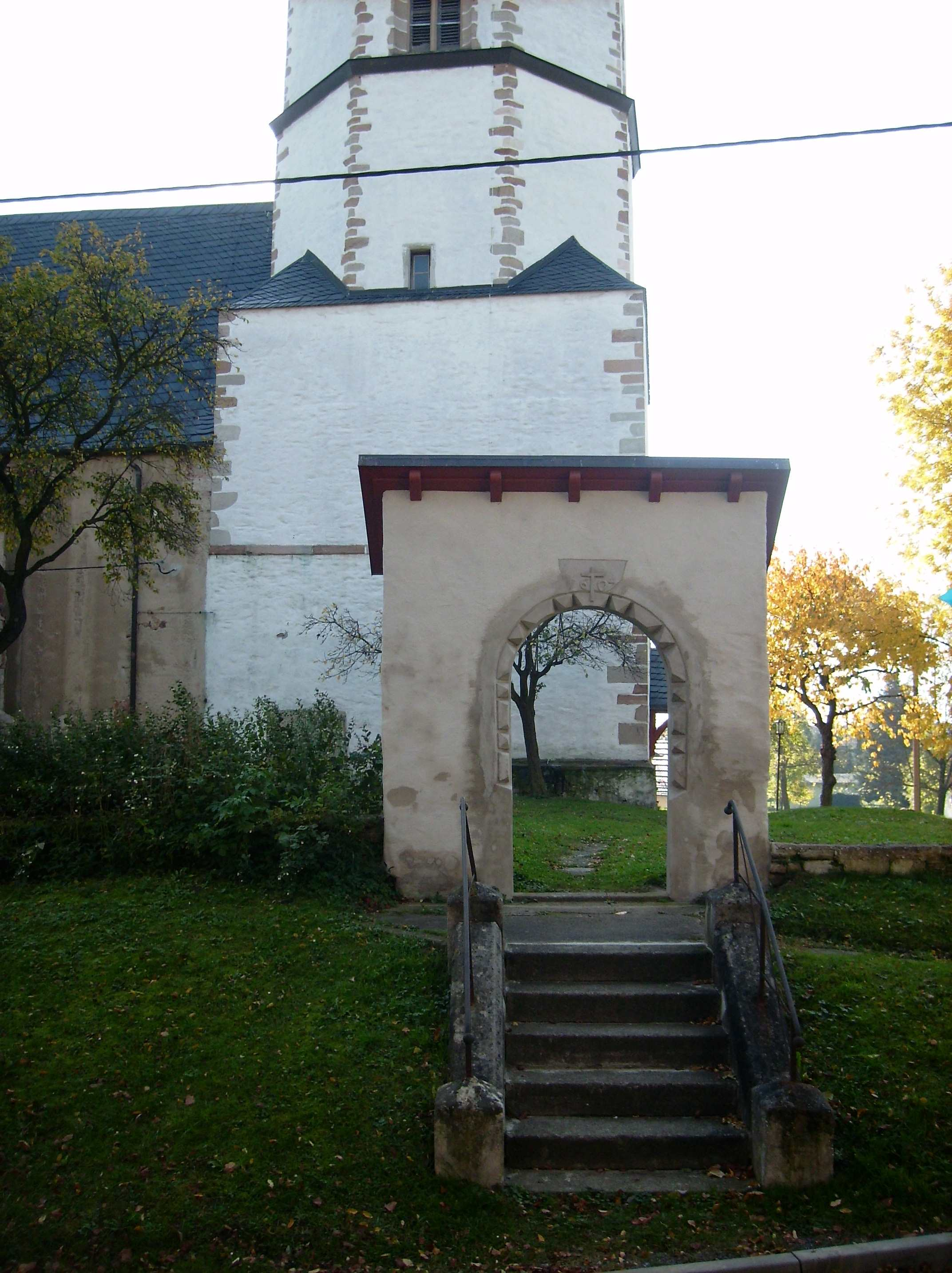 Ancient portal of Monstab churchyard (district of Altenburger Land, Thuringia)